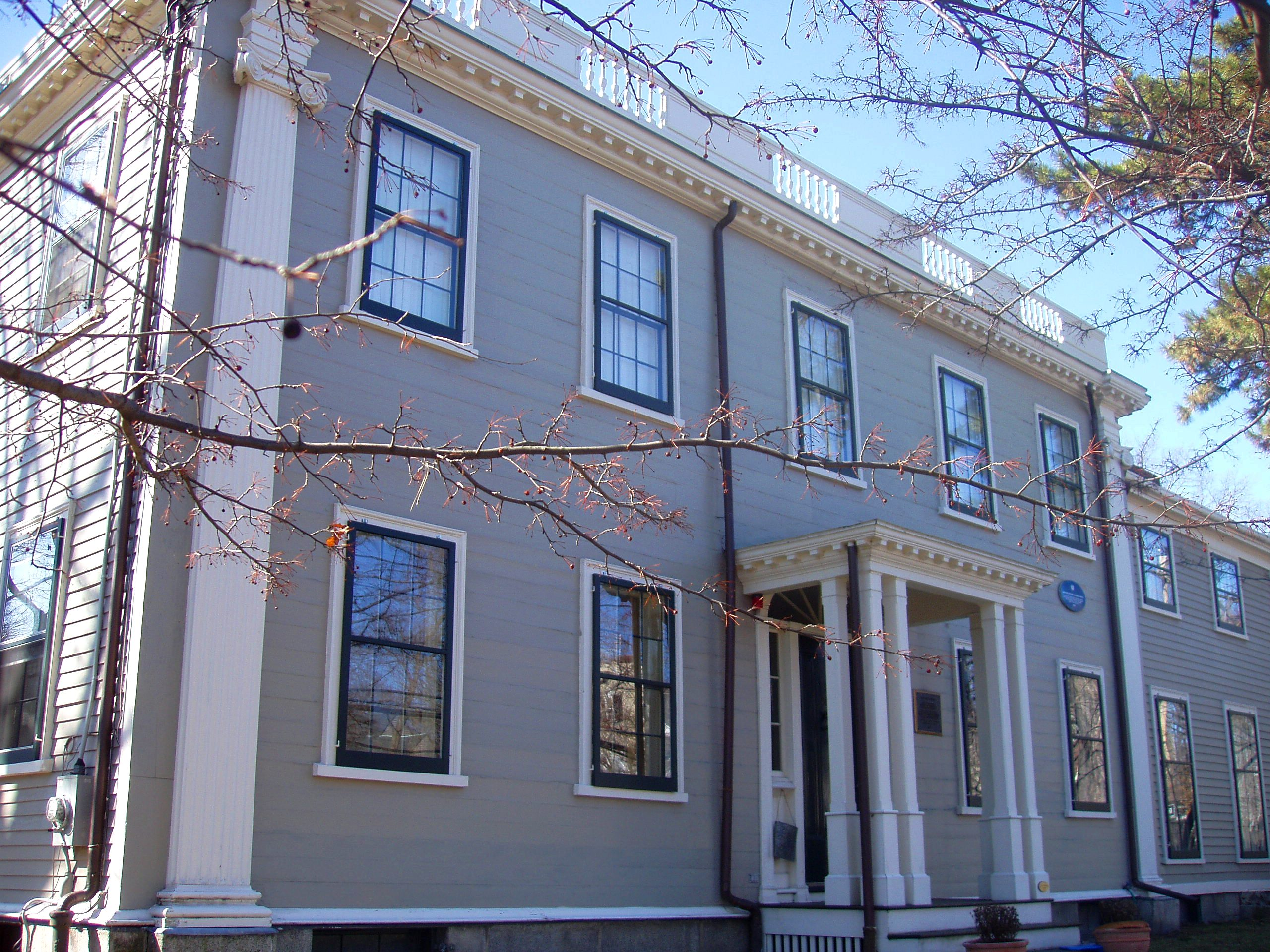 Asa Gray House, 88 Garden Street, Cambridge, Massachusetts. Photograph taken by me, February 2006.